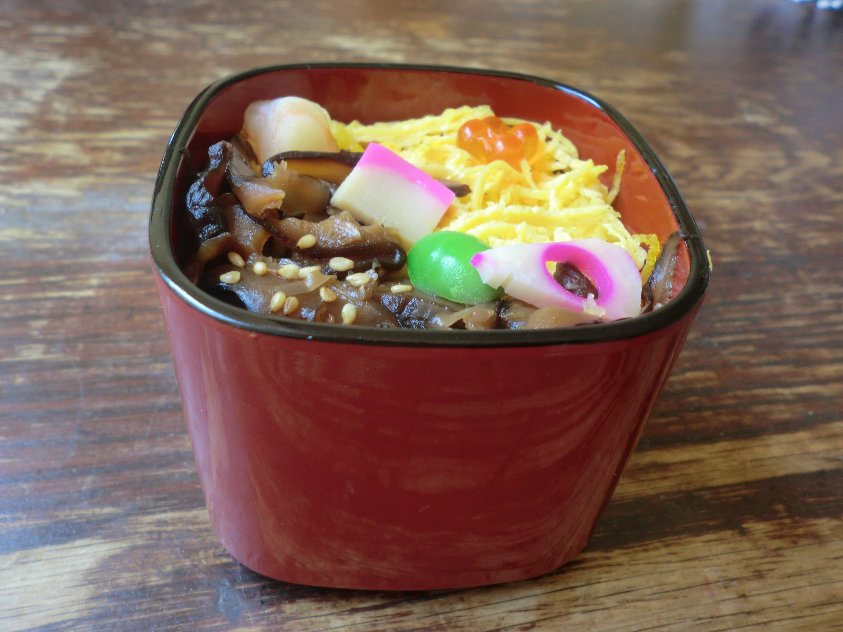 Sakezushi(kind of Sushi), famous in Kagoshima,Japan.